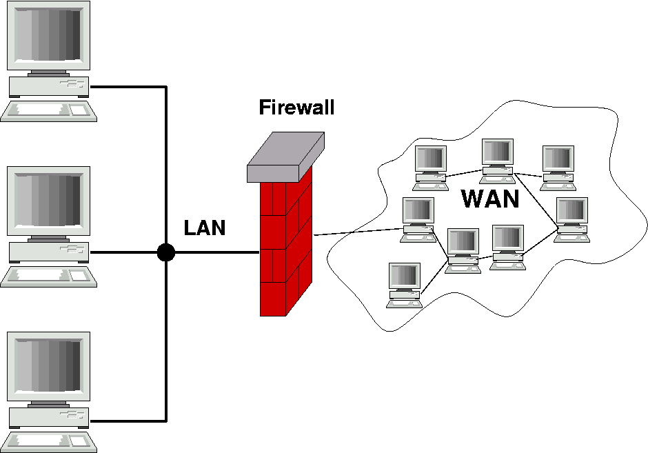 Gateway Firewall, Hardware Firewall, Firewall